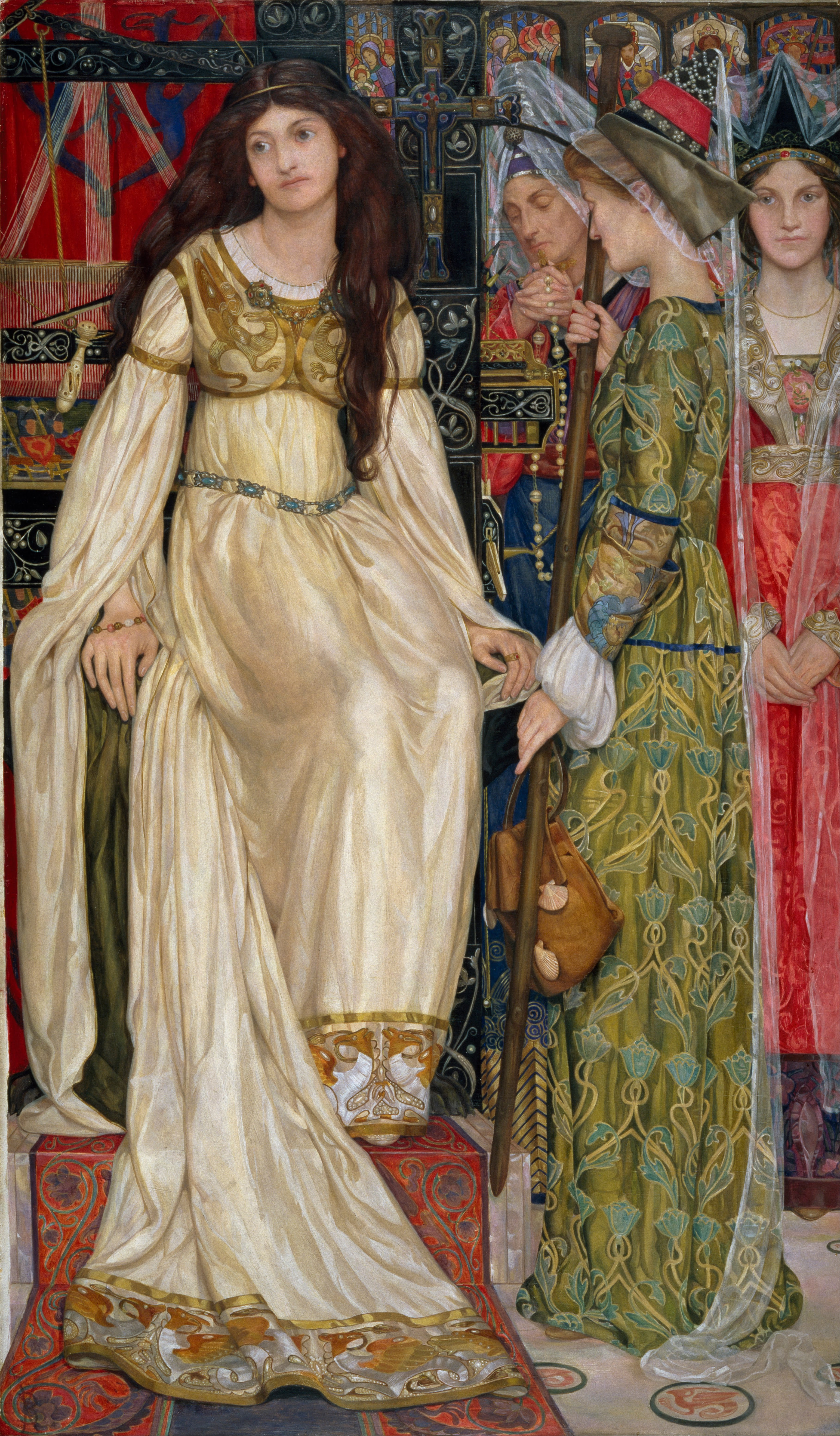 It is based on a poem by Rossetti "The Staff and Scrip"